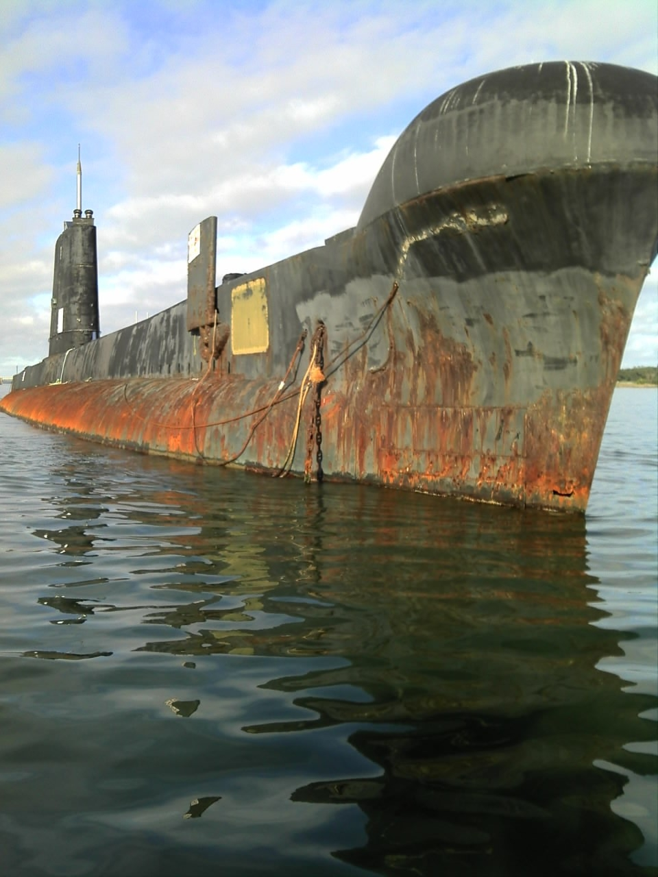 HMAS Otama